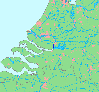 Location of a waterway (river/canal) in the Netherlends